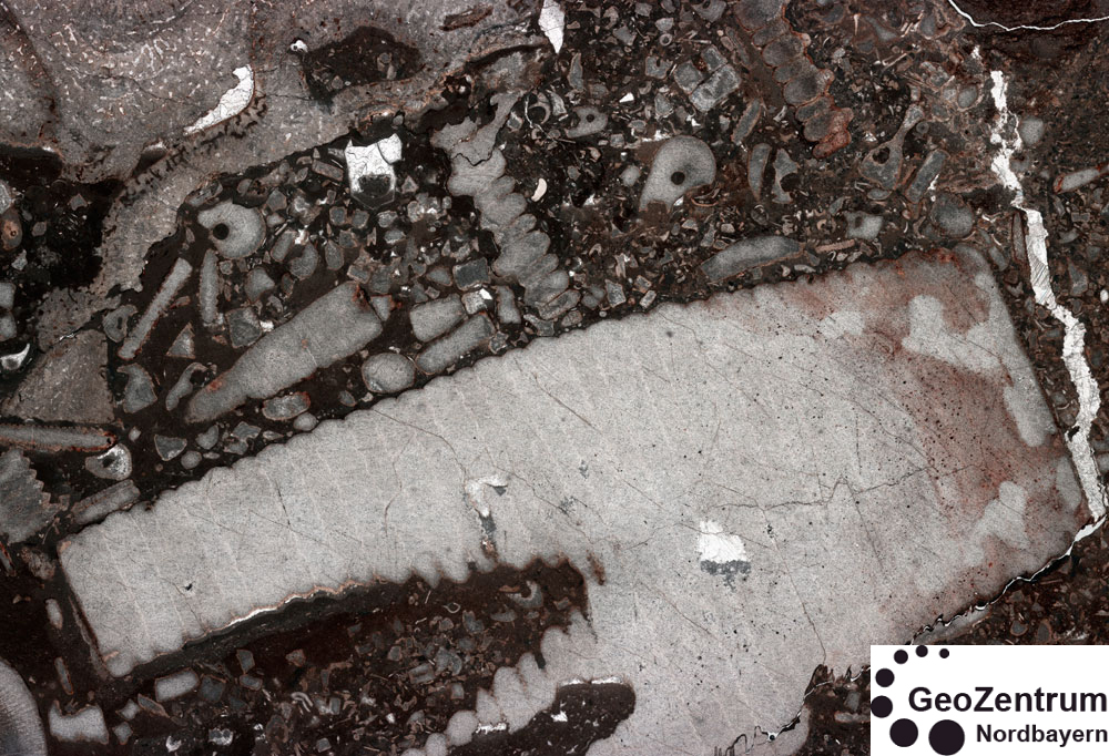 Rudstone with micrite (Dunham-classification). Width of Picture is 36mm. Picture by courtesy of Axel Munnecke, Geozentrum Nordbayern